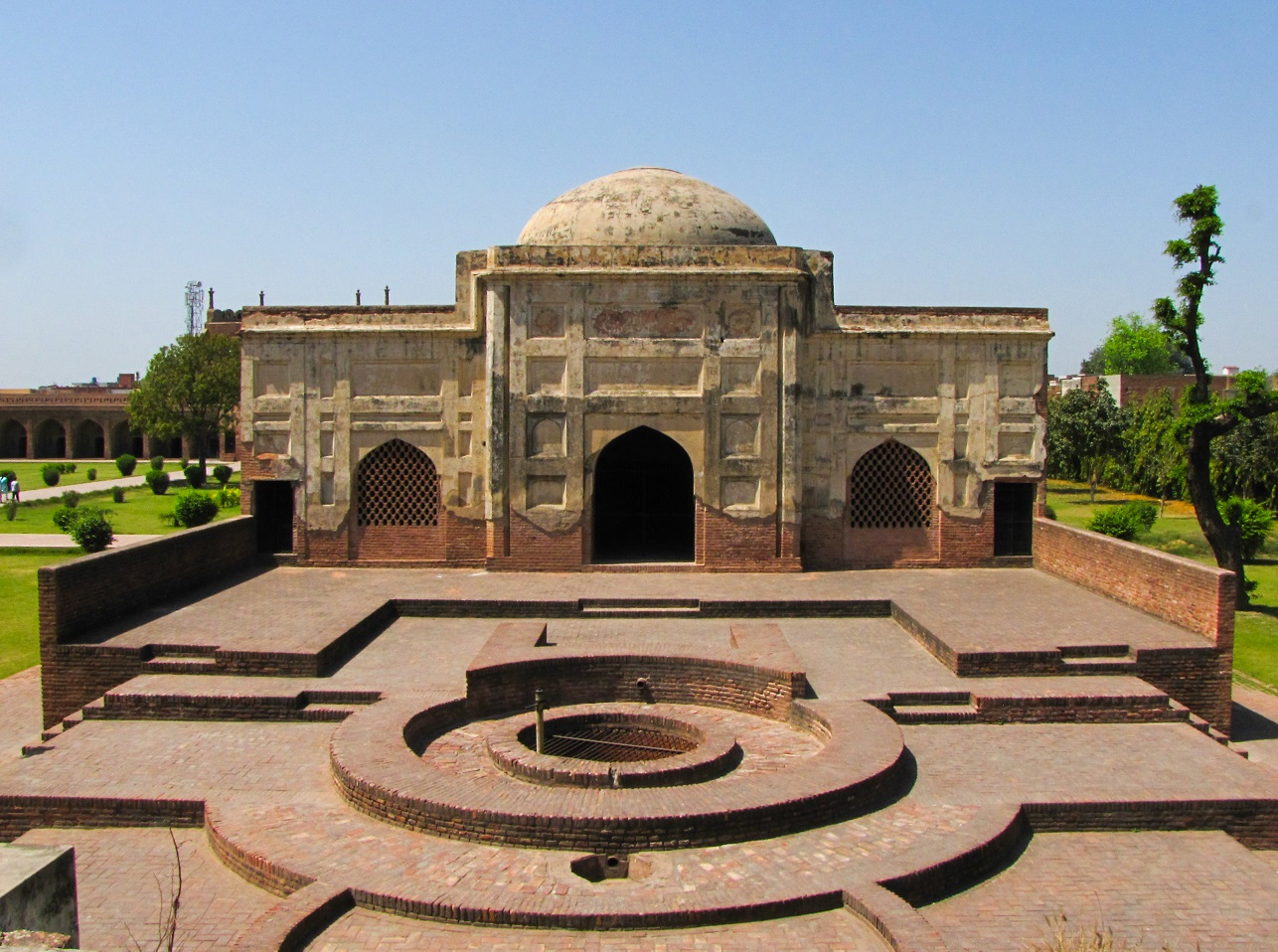 This Mosque and Circular Well is located inside the Sarai Nurmahal, Named after Nur Jahan the consort of Emperor Jahangir(1605-1627 A.D). Photo Clicked with Canon Powershot SX10 IS.